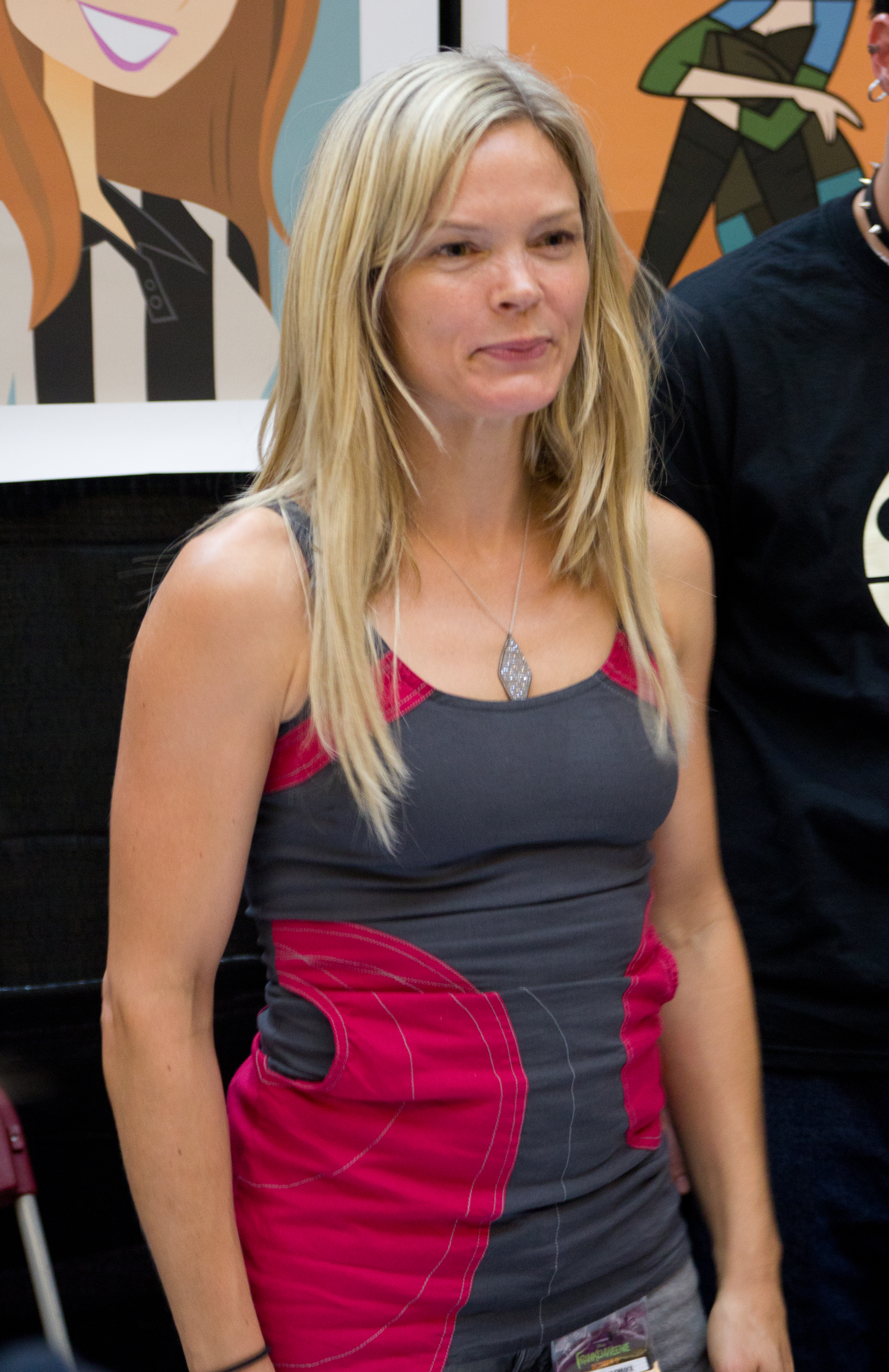 Actress Megan Fahlenbock at the 2012 FanExpo Canada